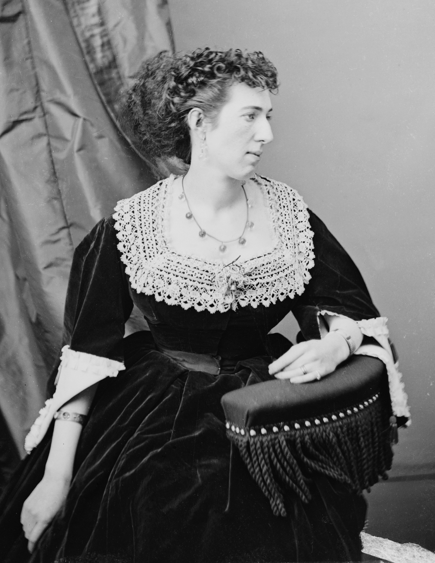 Portrait of Belle Boyd